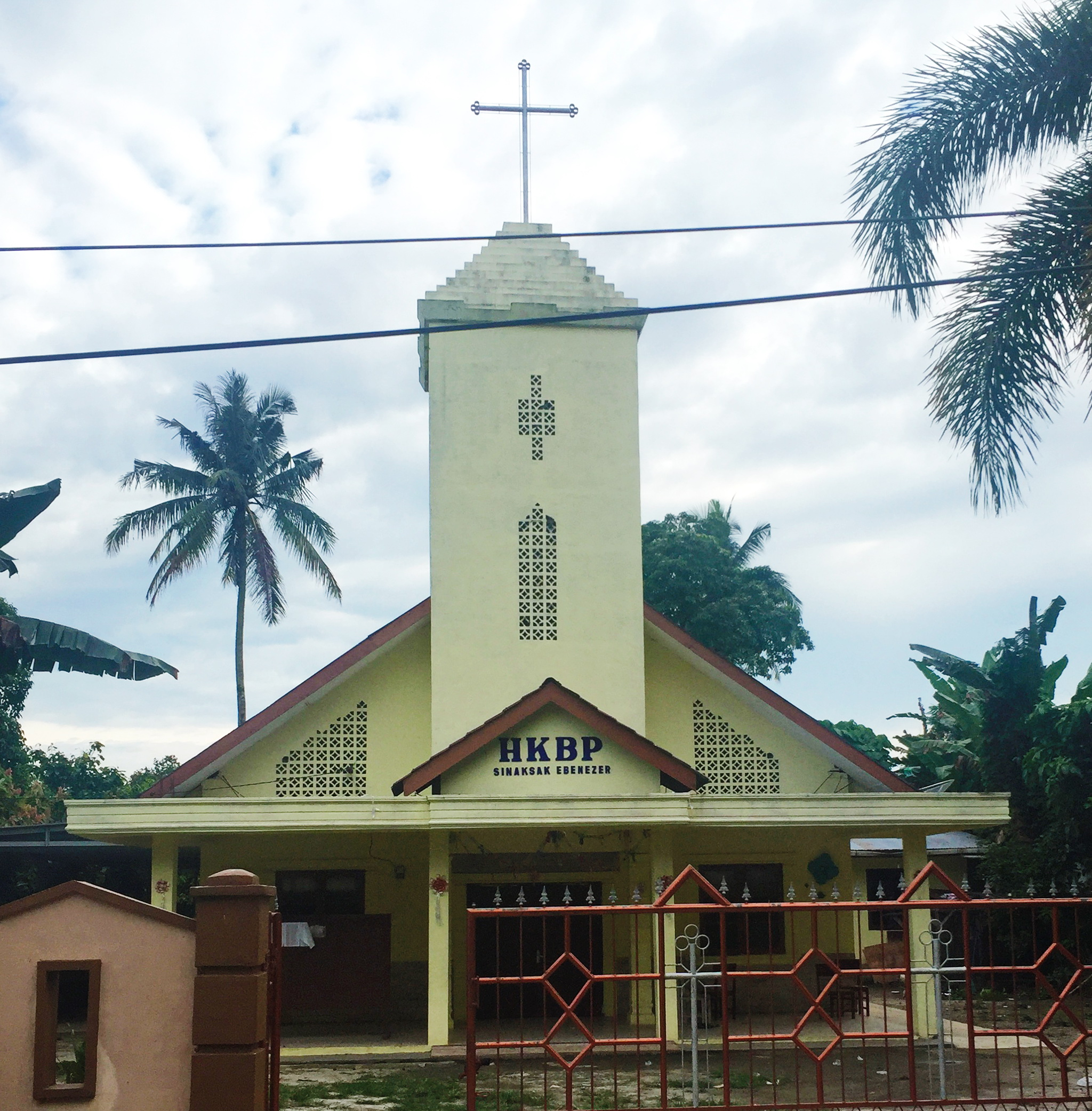 HKBP Sinaksak Ebenezer, Res. Bongbongan, Church in Tapian Dolok, Simalungun